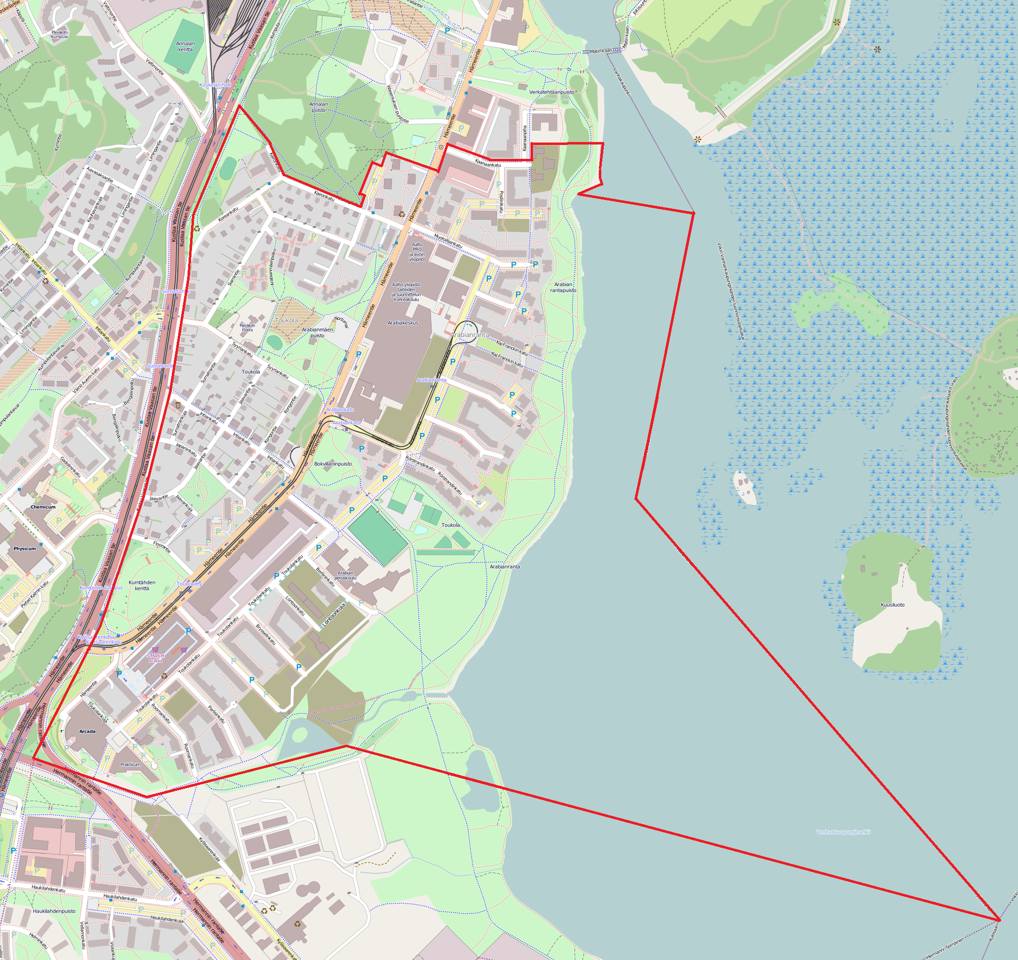 OSM-map of the District Toukola (Majstad) in Helsinki